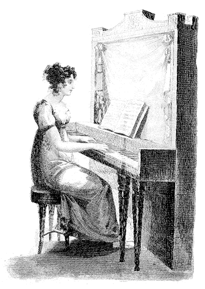 Regency young lady playing the pianoforte